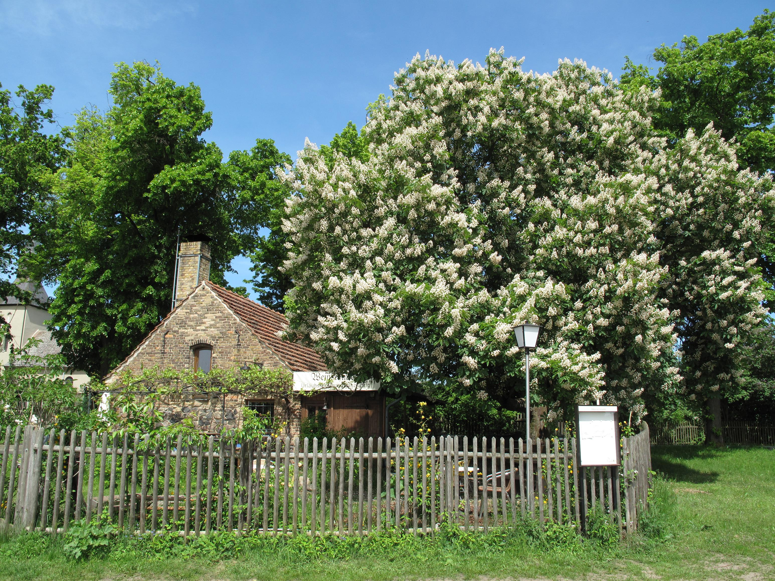 Around 200 years old and listed former forge in Fresdorf, since 1993 used as wine bar (called „Weinschmiede“). Fresdorf is a part of Michendorf in the district Potsdam-Mittelmark, state Brandenburg, Germany.